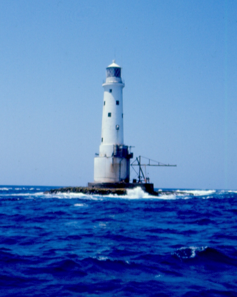 Great Basses lighthouse seen from the south